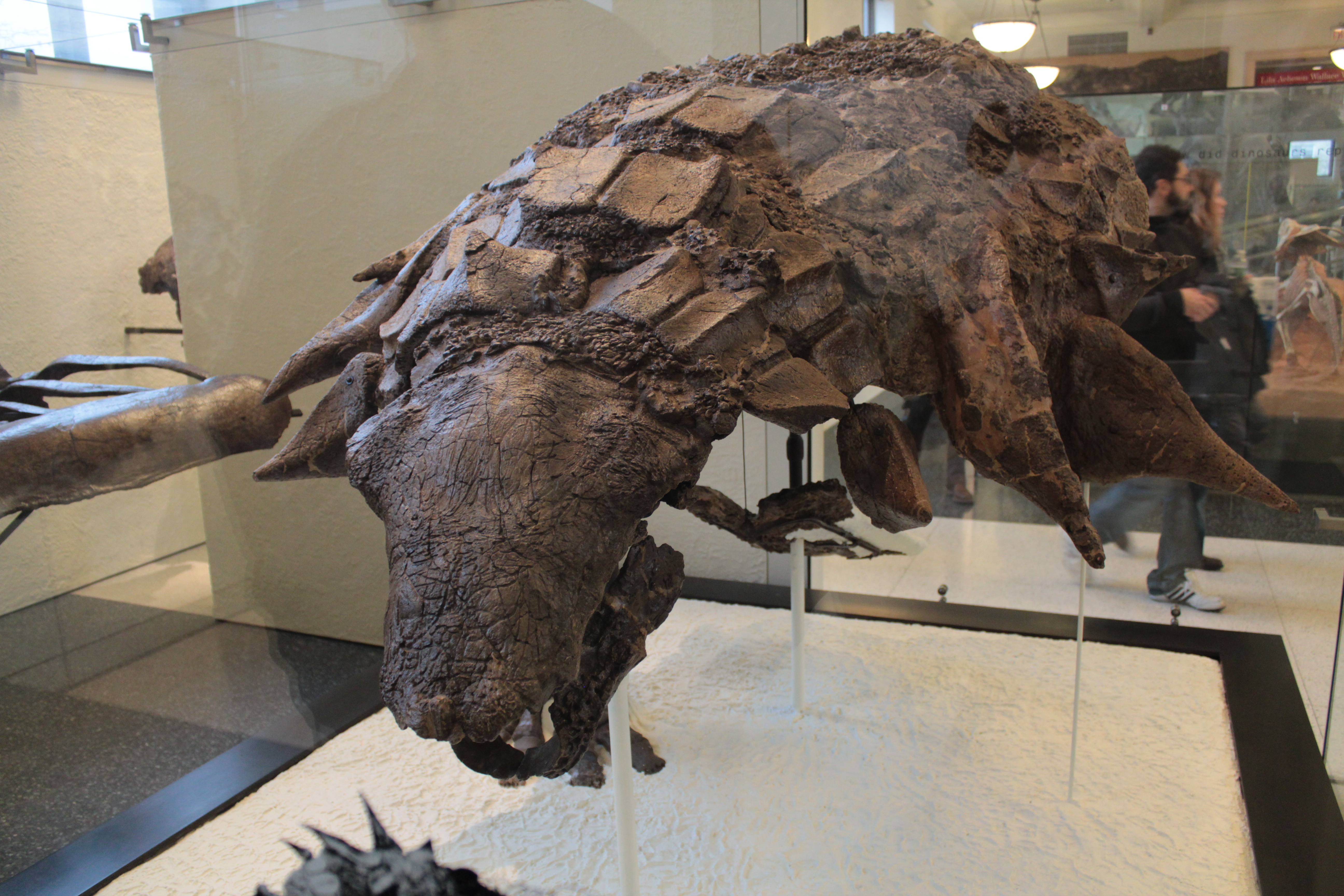 Taken at the American Museum of Natural History, in New York City, New York.